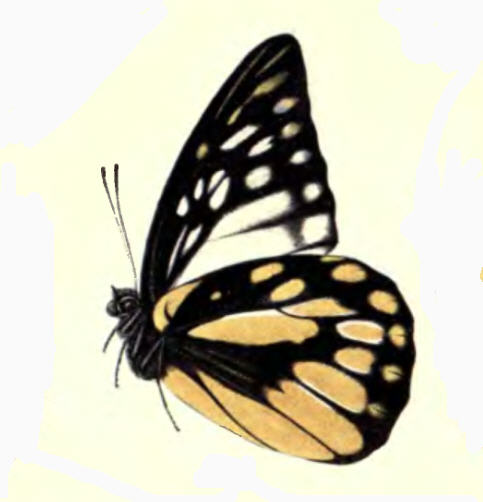 Spotted Sawtooth